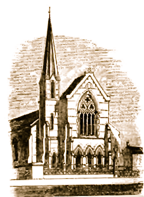 Victoria Chapel, Cleethorpe Road, Grimsby. 1860